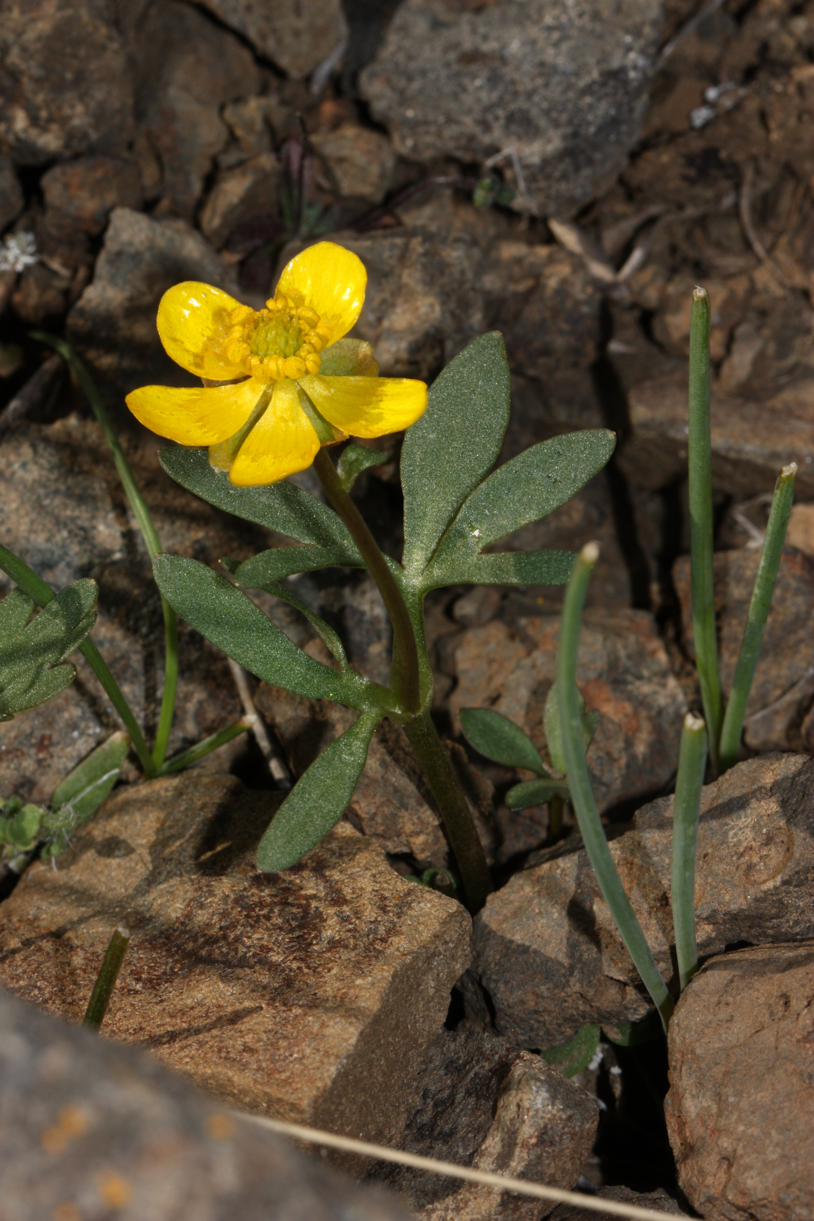 Sagebrush Buttercup; Focus stacking of 2 pictures (using Helicon Focus).Source image gallery under other versions.